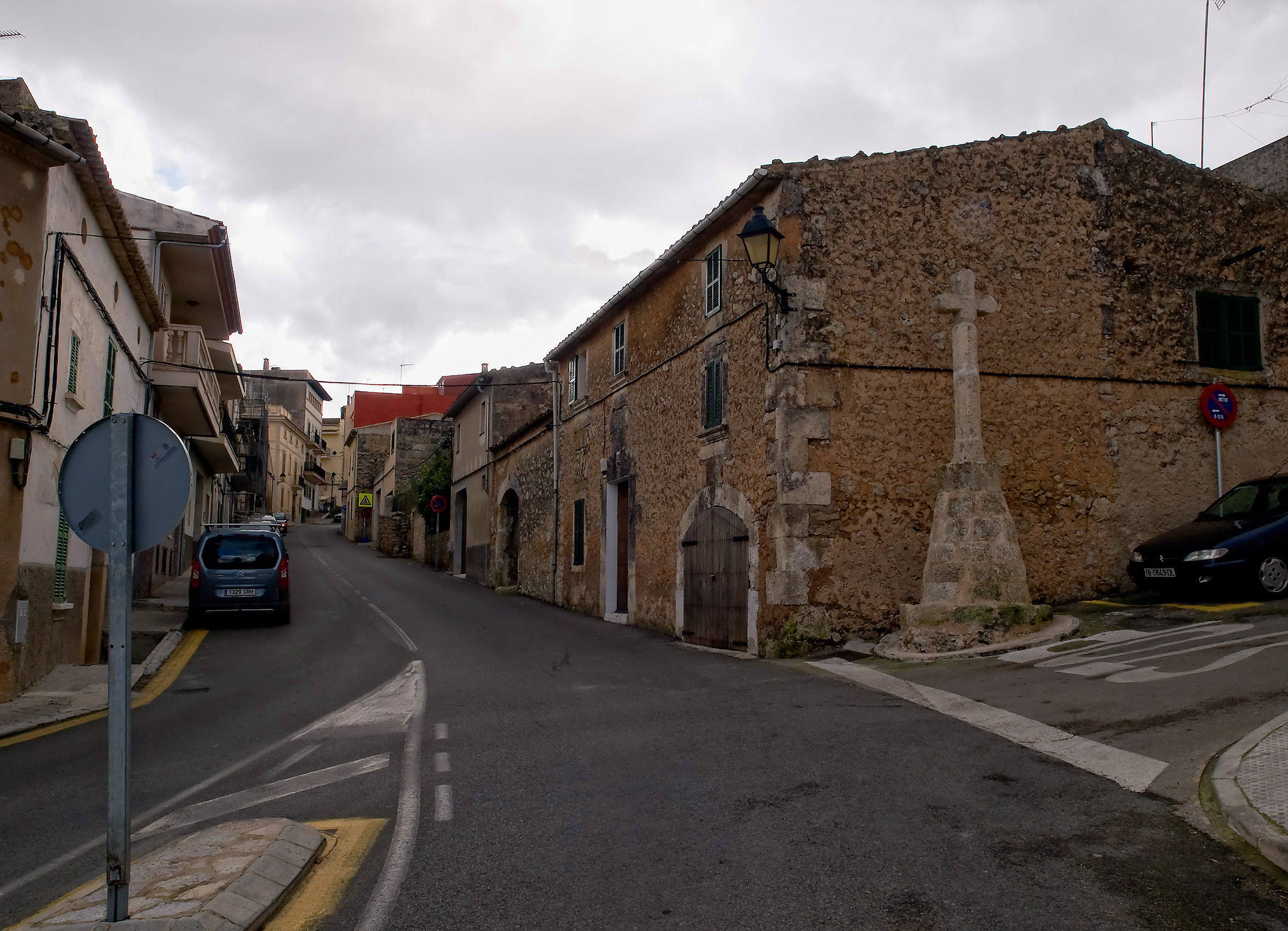 Buger streets (Mallorca)